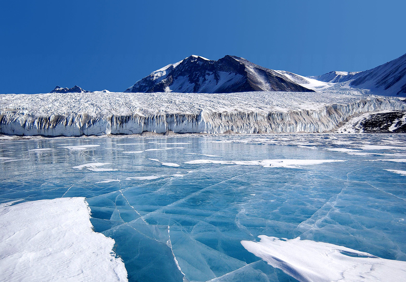 Antarctica: The blue ice covering Lake Fryxell, in the Transantarctic Mountains, comes from glacial meltwater from the Canada Glacier and other smaller glaciers. The freshwater stays on top of the lake and freezes, sealing in briny water below.